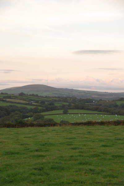 View towards Preseli TV Mast.